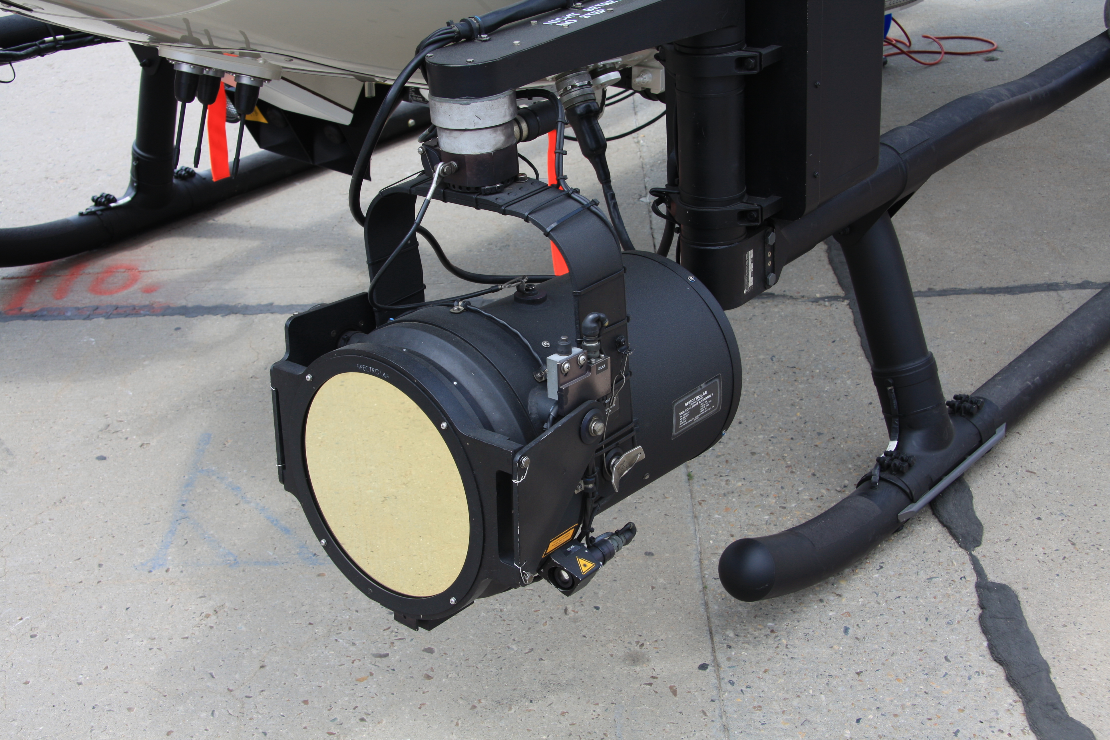 The search light SX16 Nightsun on an EC 135 (picture taken during the International Air and Space Exhbition)